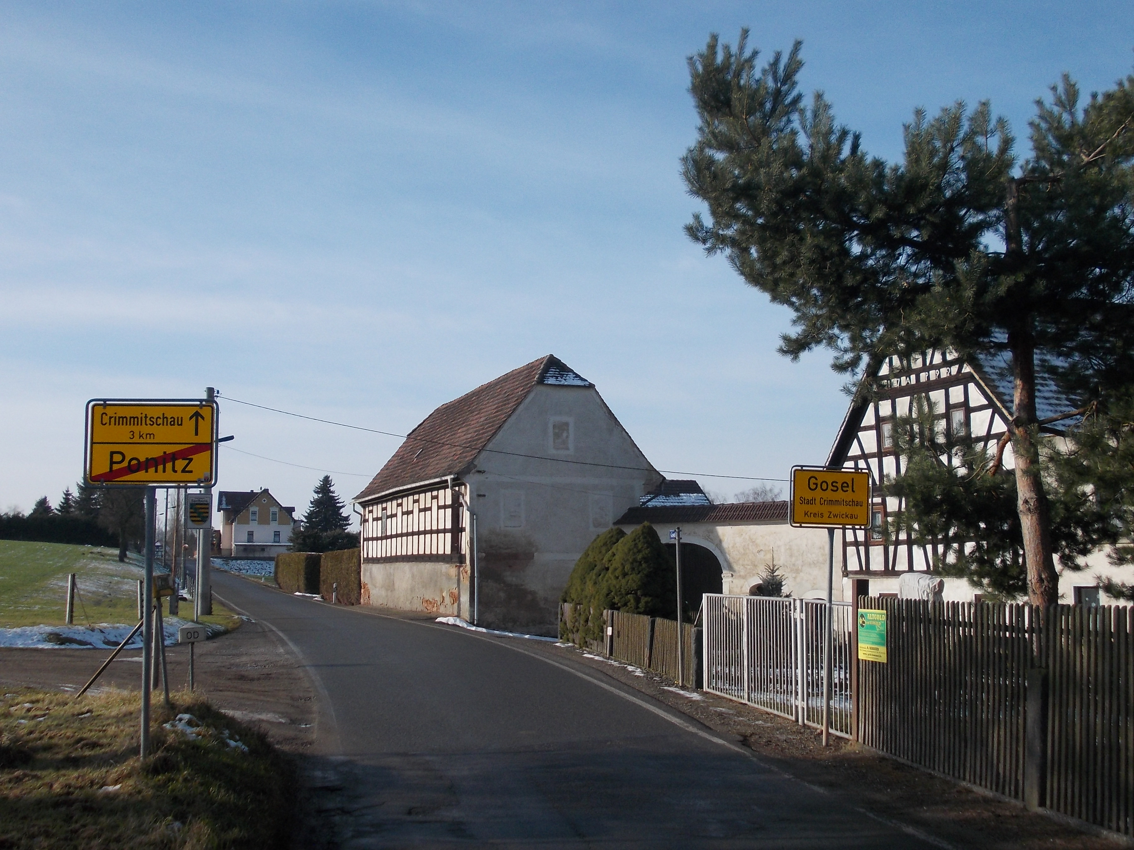 Entrance to Gosel (Crimmitschau, Zwickau district, Saxony)